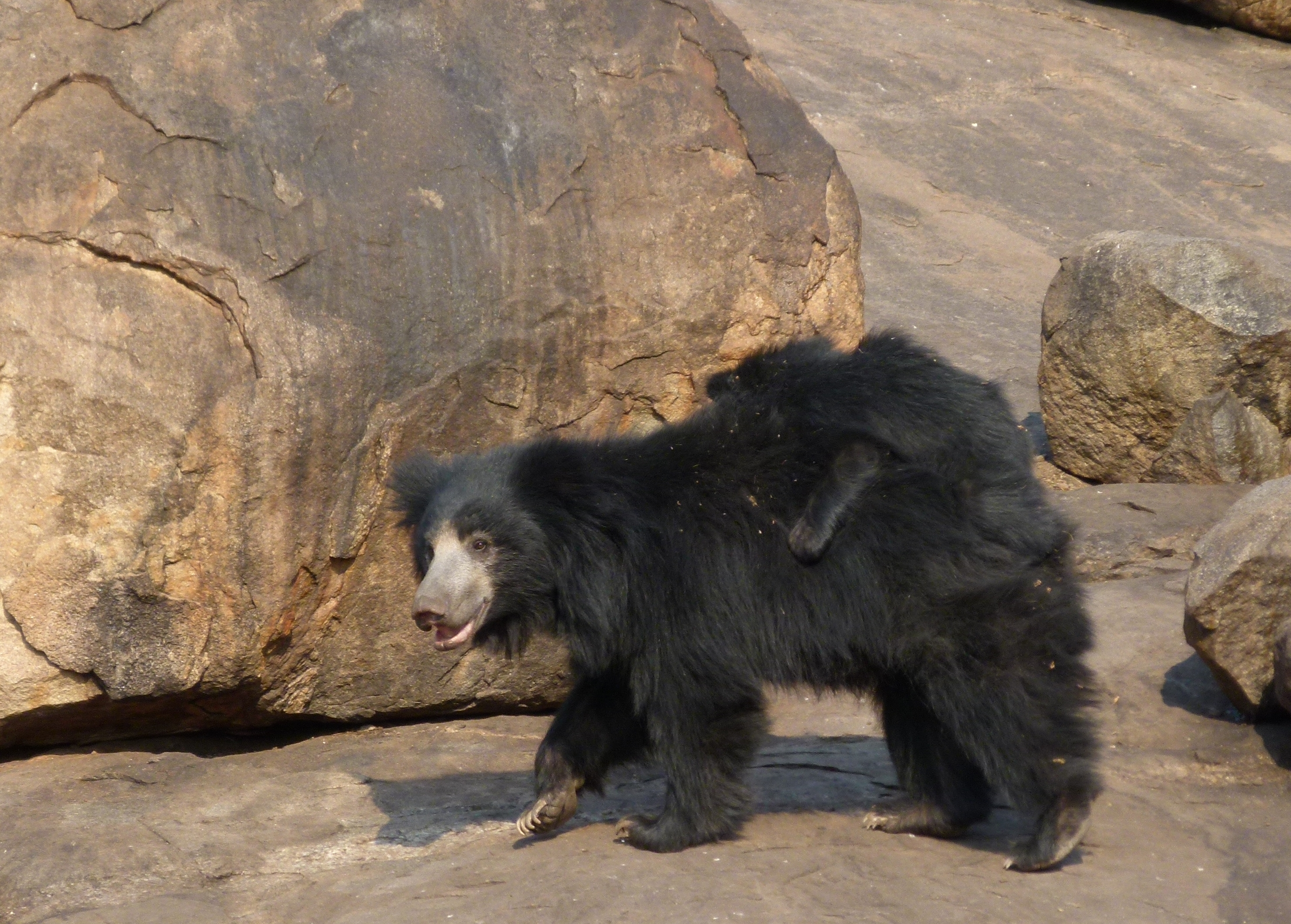 Female Melursus ursinus with cub. Daroji WLS, India